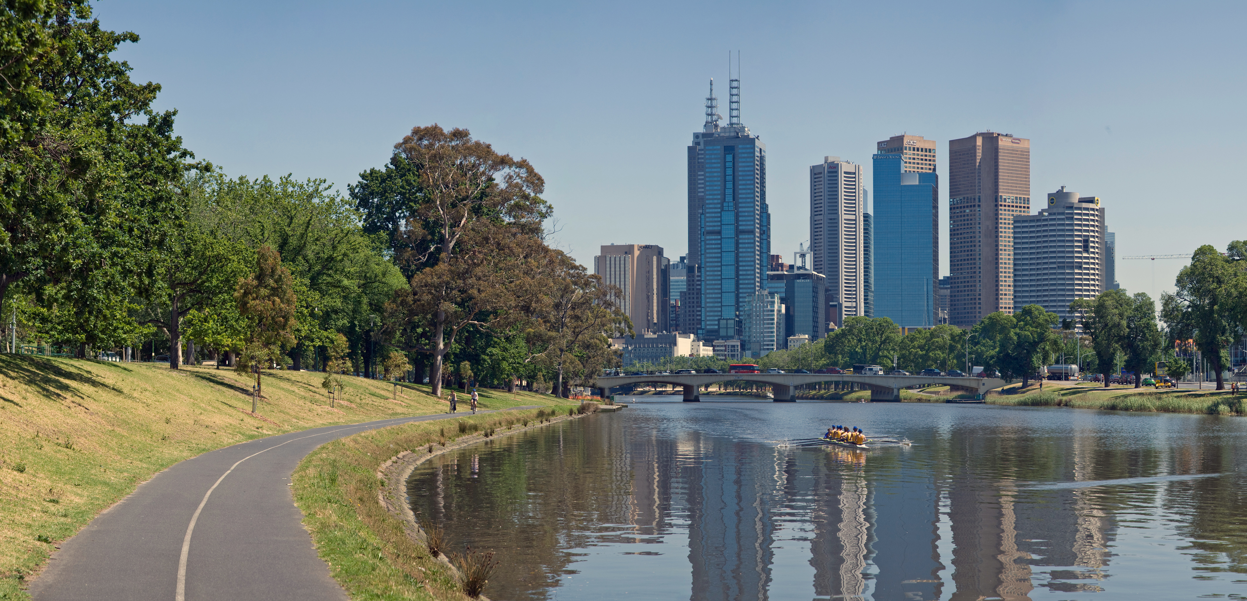 A panoramic view of the Yarra River flowing through Melbourne and the Yarra Trail on it's banks. This is a composite of 5 individual images taken with a Canon 5D and 24-105mm f/4L IS lens.